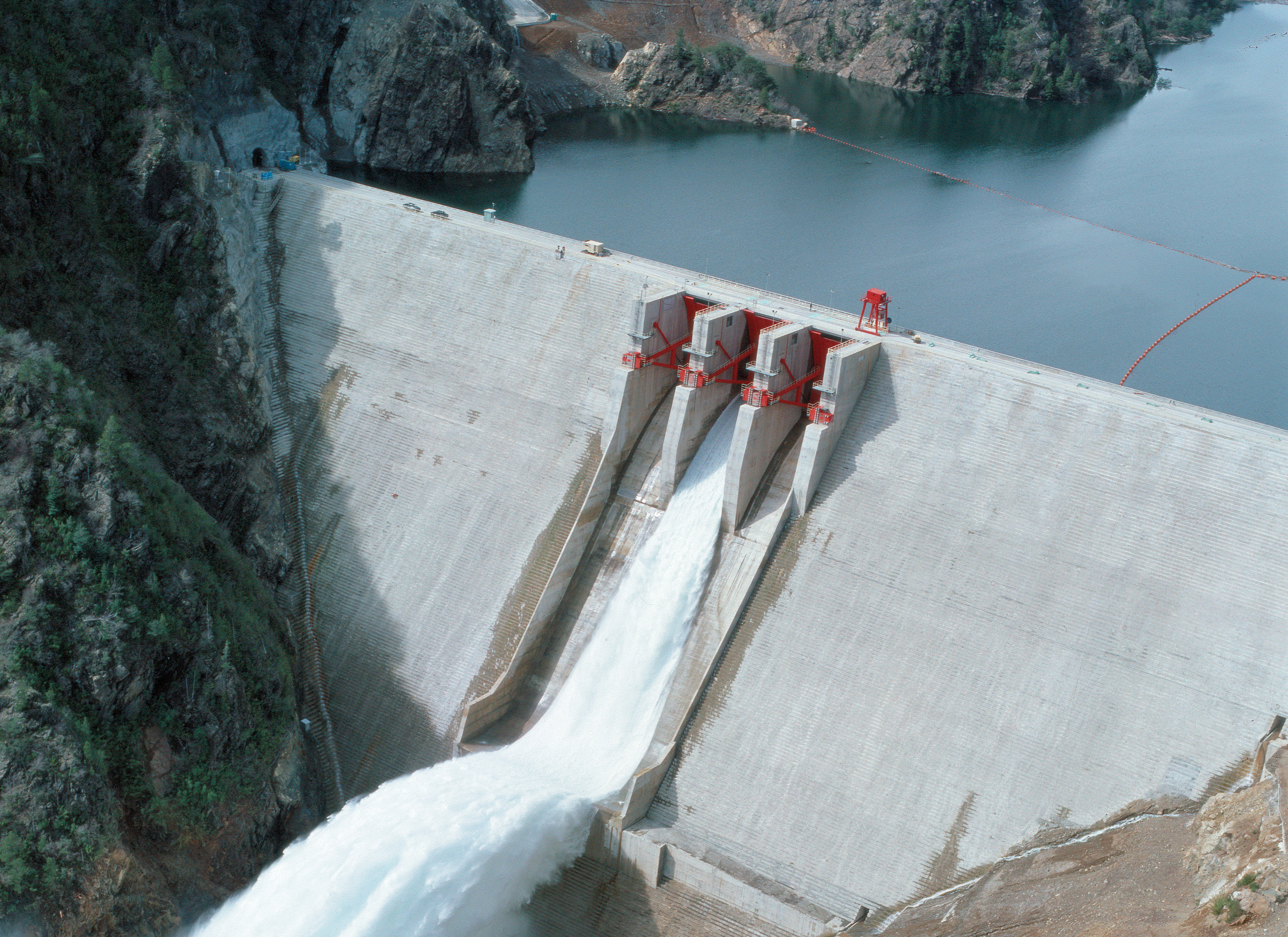 Enel generación